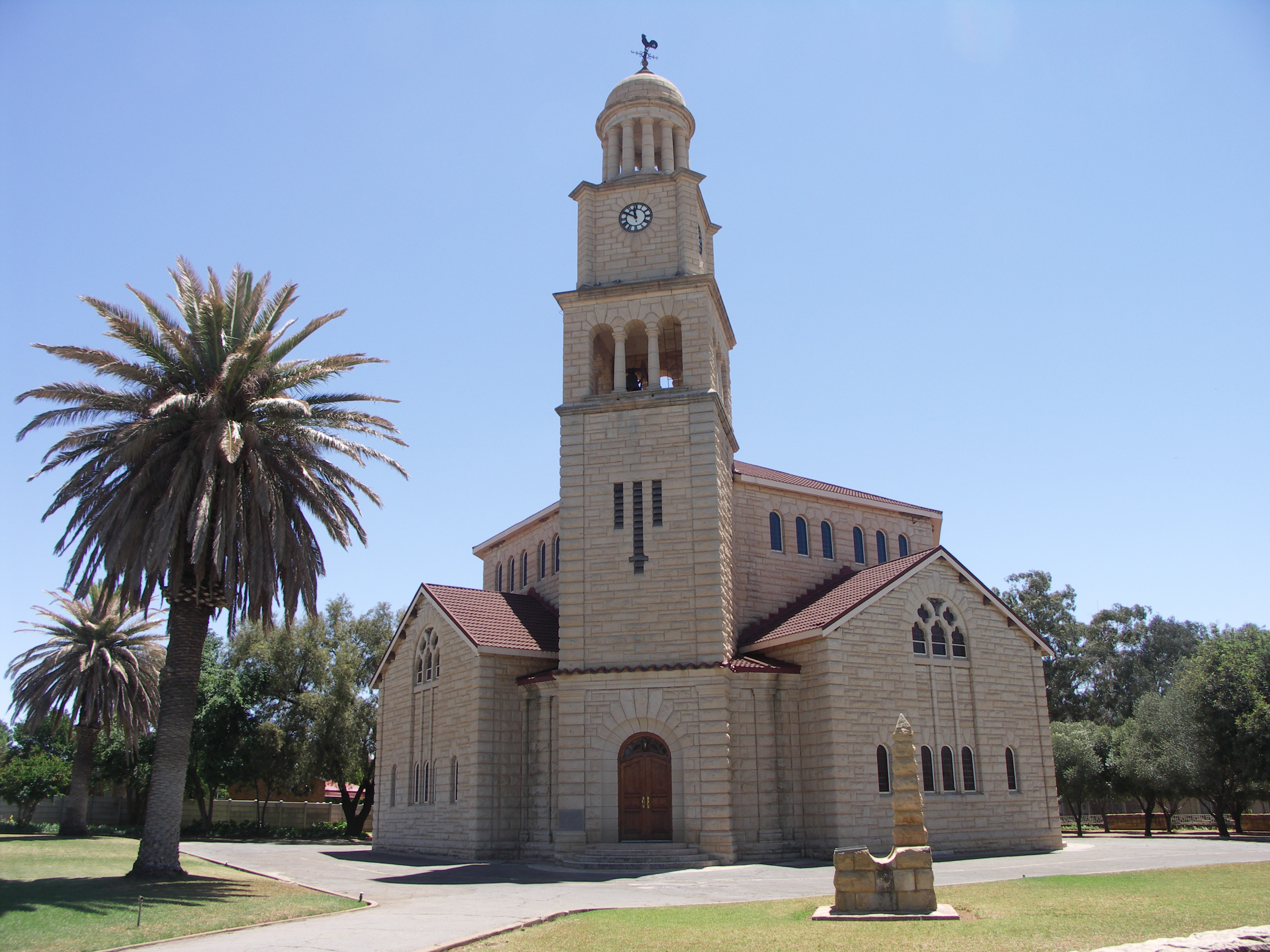 NG Kerk in Wolmeransstad, North West, South Africa.